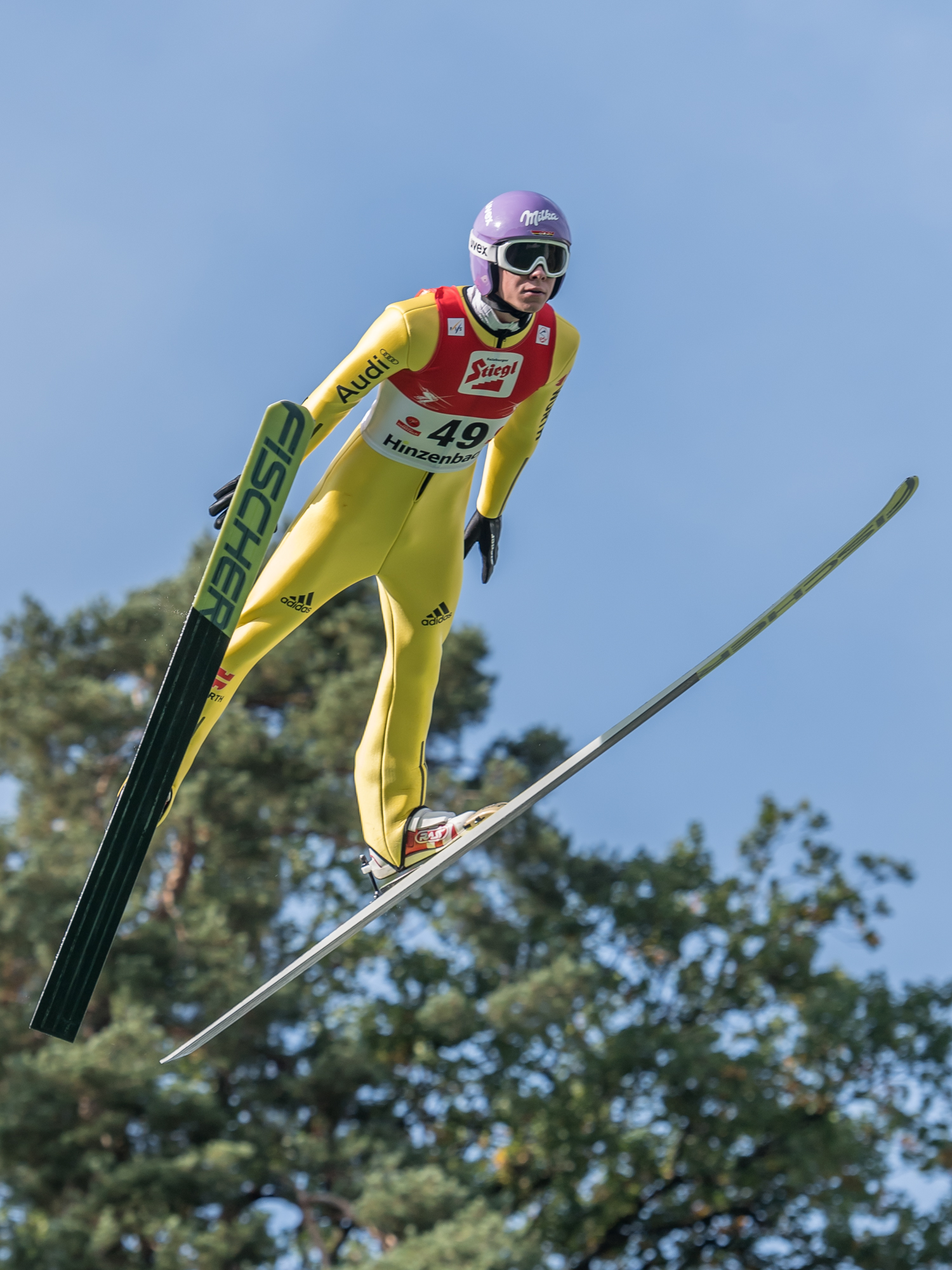 Hinzenbach, Austria, FIS Ski Jumping Grand Prix 2016